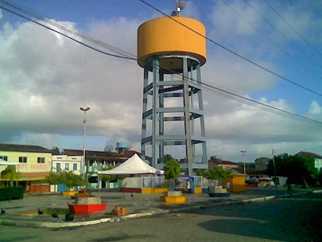 Caixa d`Água in Alcobaça, Bahia